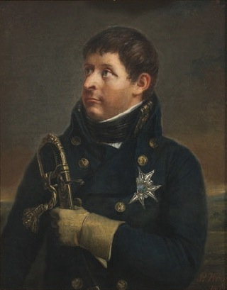 Portrait of Charles August, Crown Prince of Sweden